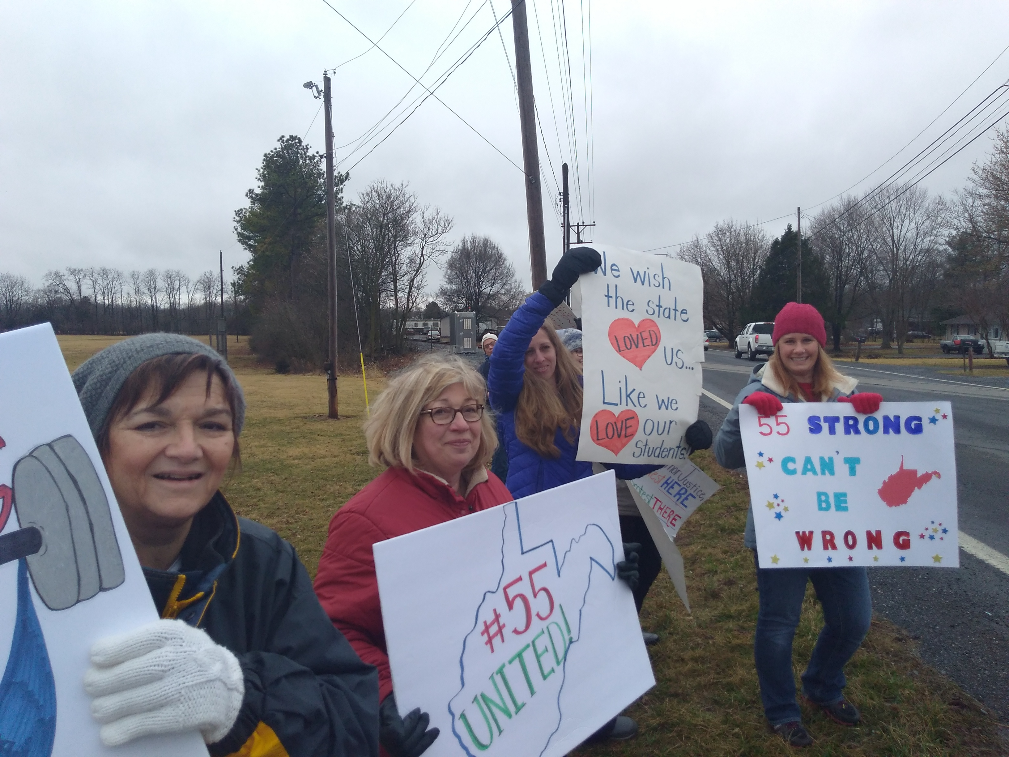 WV Teacher Strike 2018